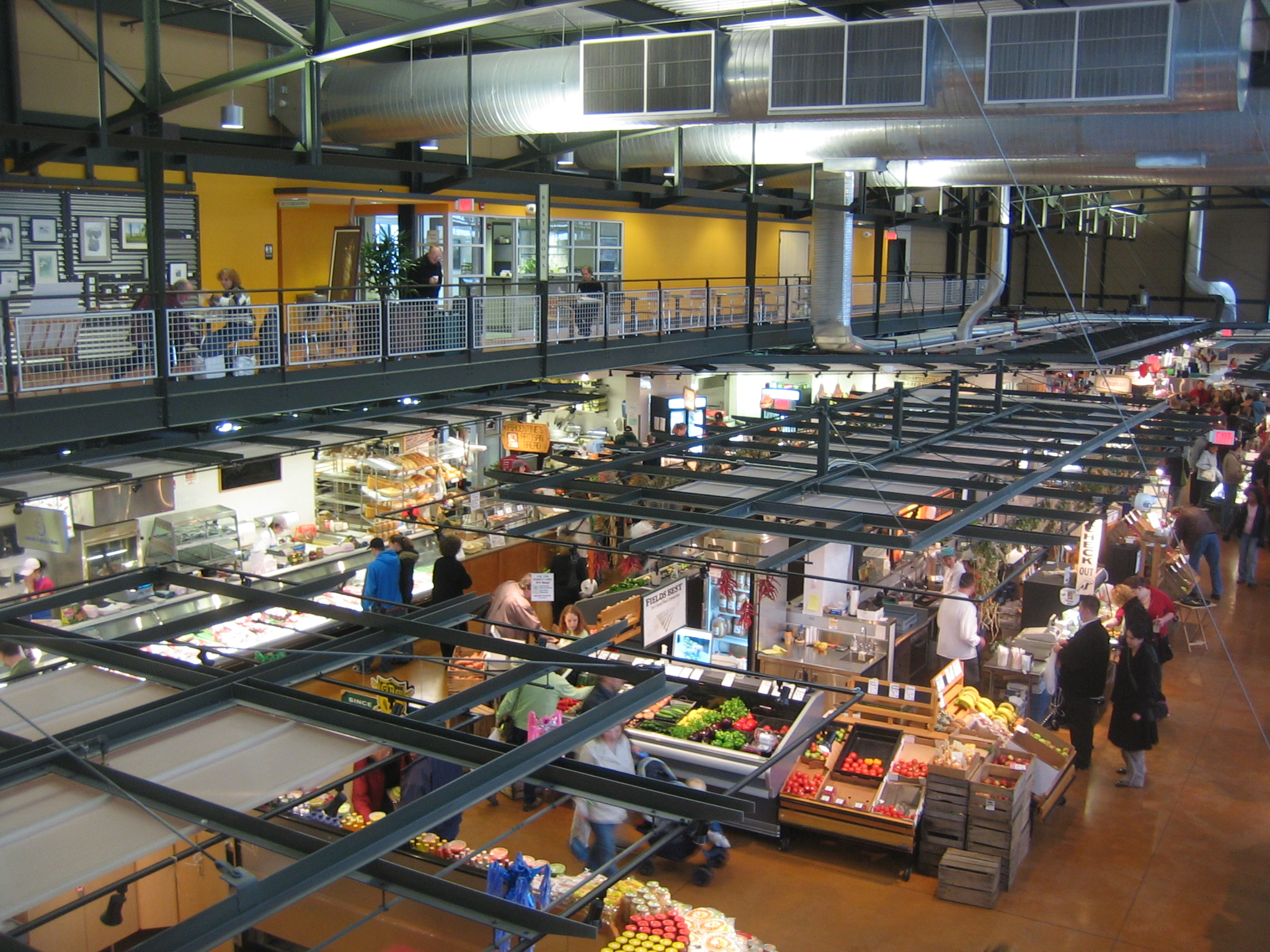 Celebrating the one year anniversary of the Milwaukee Public Market.